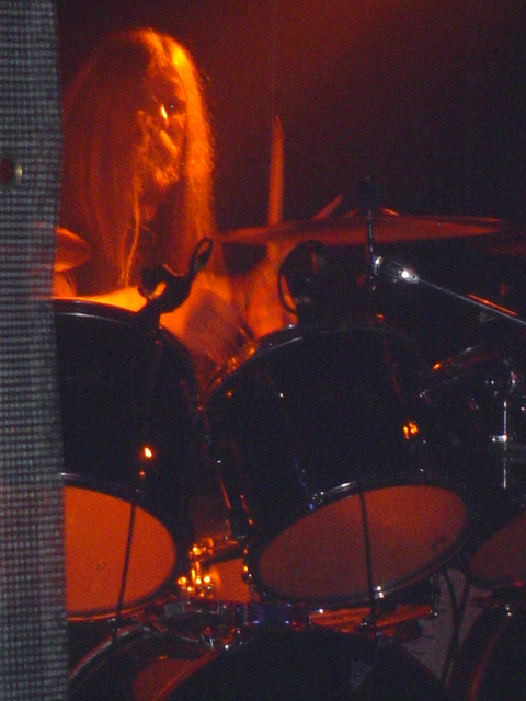 Drummer Horgh of Hypocrisy